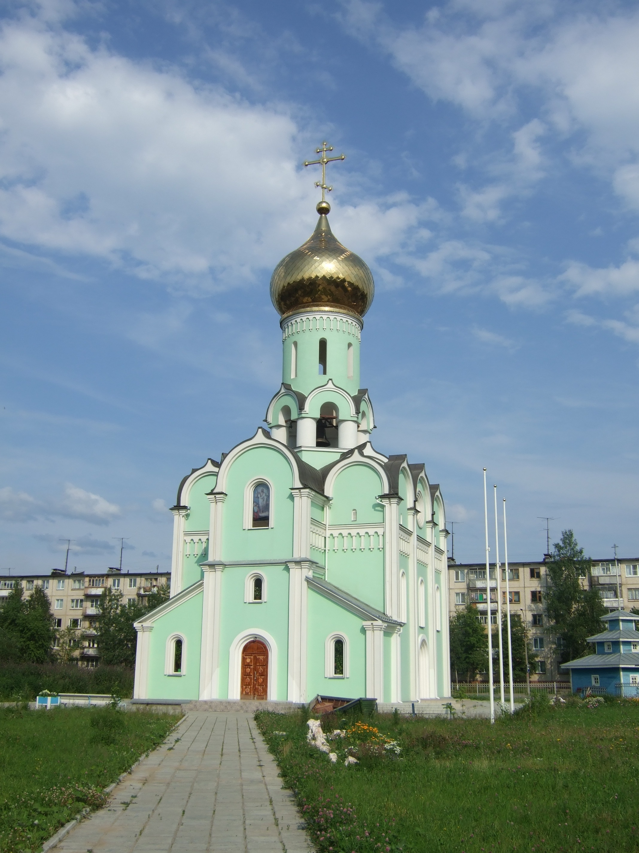 Church at Novodvinsk